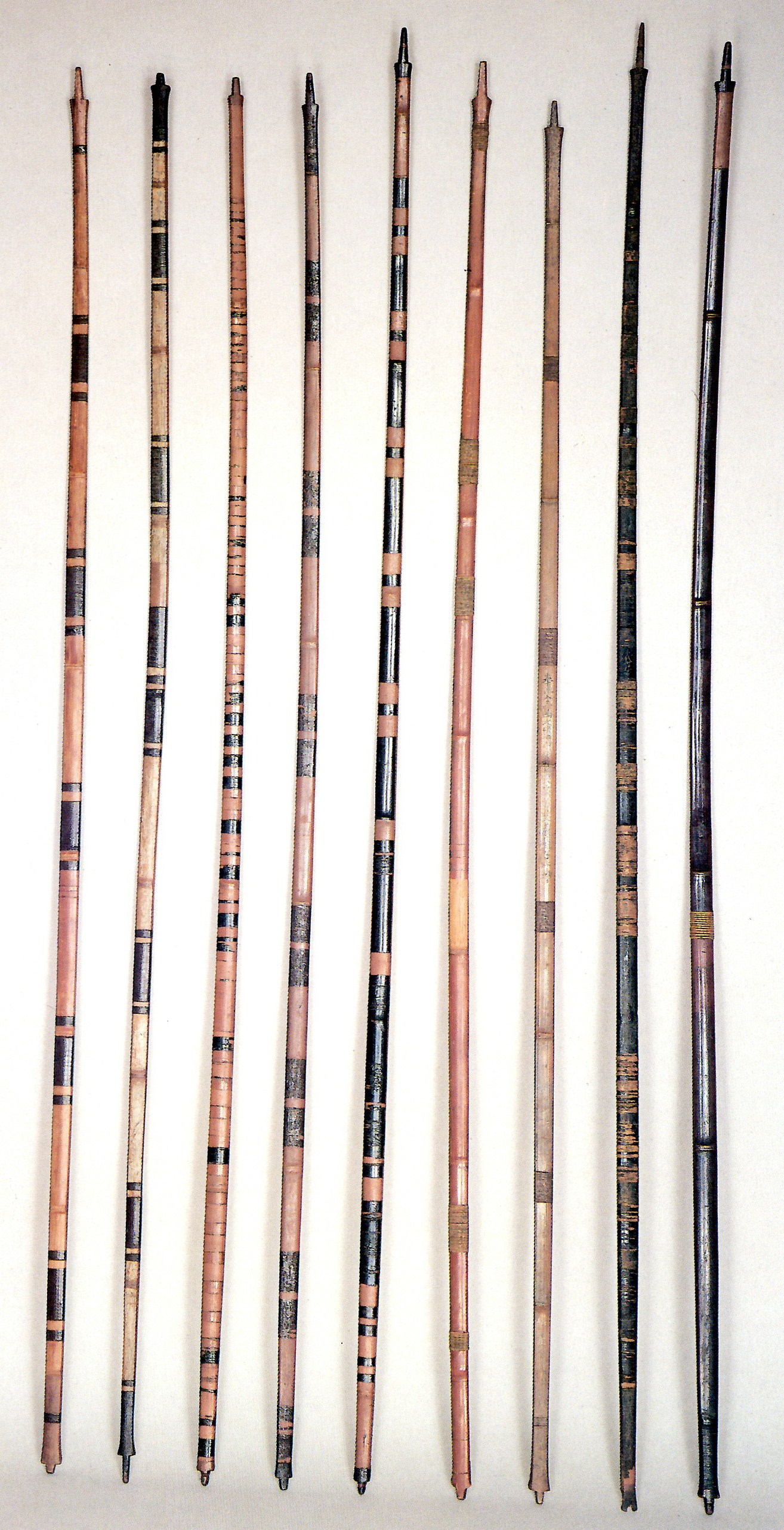 The bow of the Kamakura period